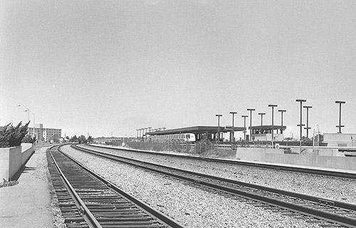 Richmond station in April 1976, before the Amtrak platform was constructed